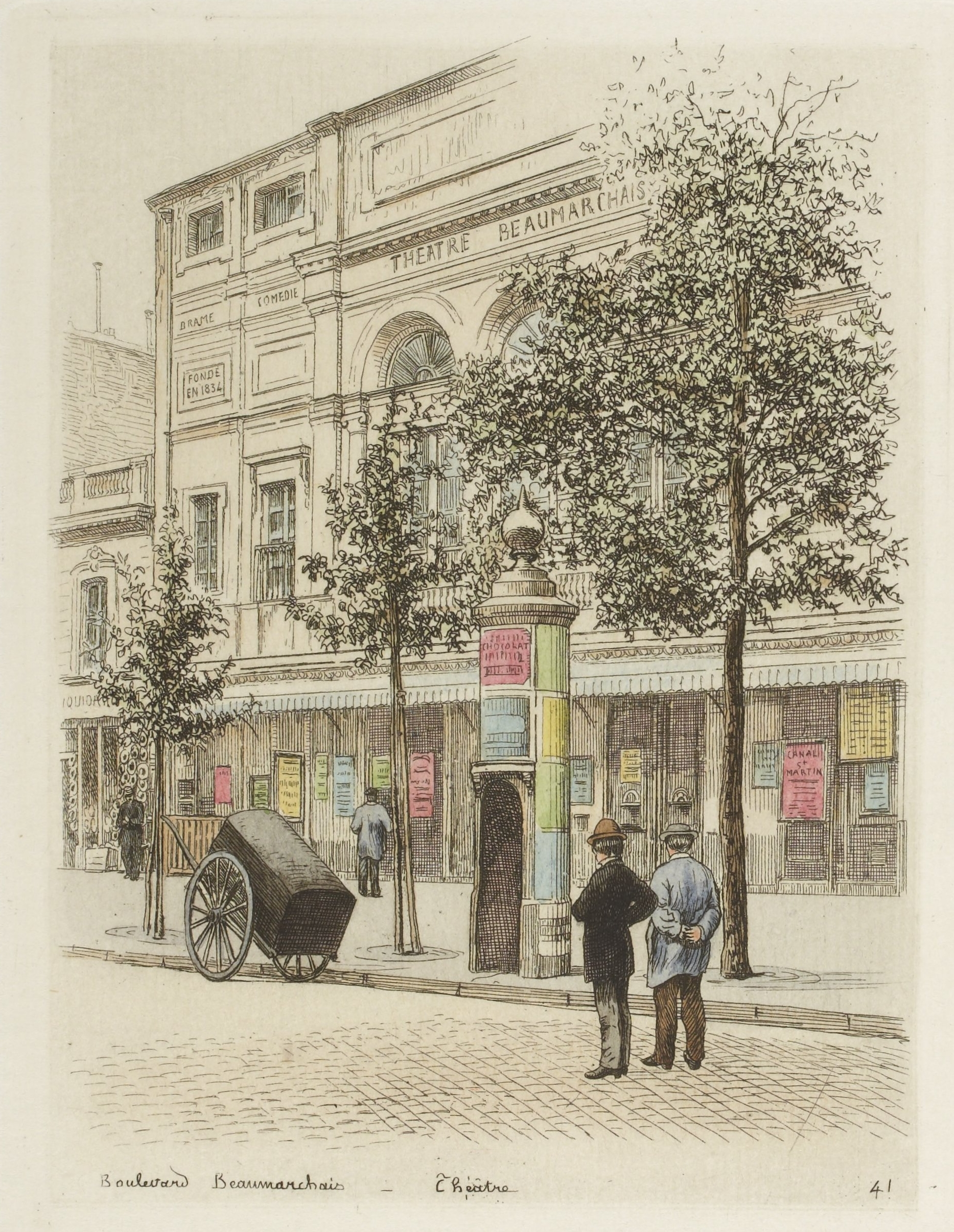 Boulevard Beaumarchais and Théâtre Beaumarchais. Hand-coloured etchings of 1870s street scenes in Paris by A.-P Martial